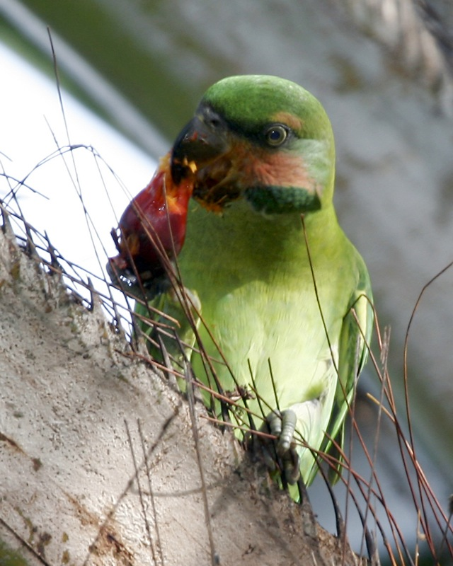 Long-tailed Parakeet (Psittacula longicauda longicauda). A female in Queenstown, Central Singapore on 2 December 2005.